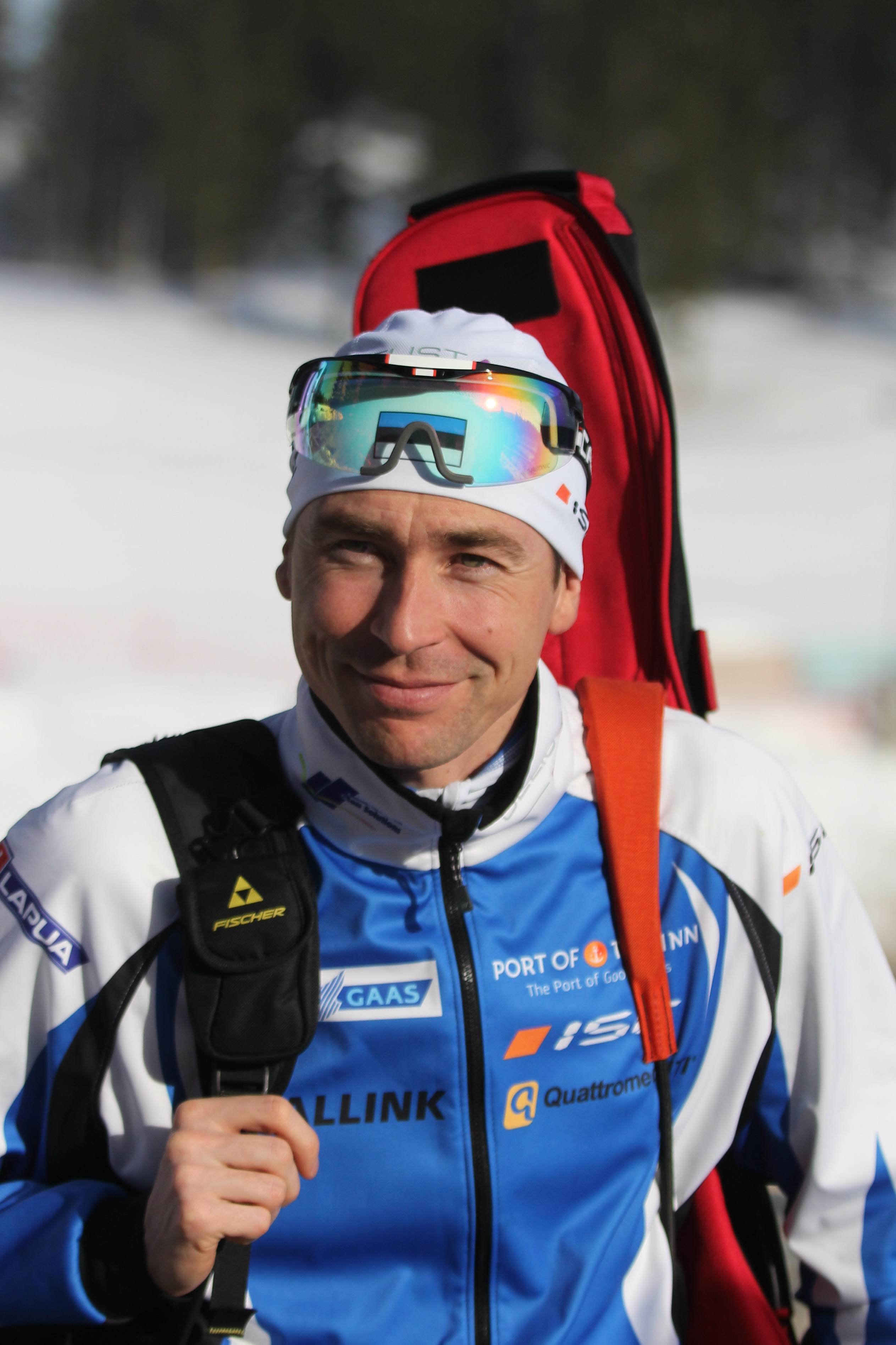 Indrek Tobreluts at Biathlon Worldcup in Oslo 2013